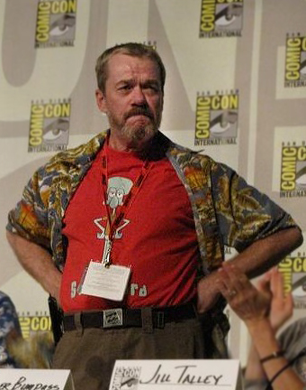 Cropped photo of American voice actor Rodger Bumpass standing at the SpongeBob SquarePants panel during the 2009 San Diego Comic-Con